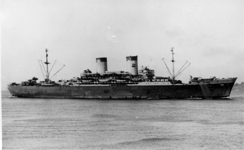 The U.S. Navy troop transport USS General A. E. Anderson (AP-111) underway, in 1944.